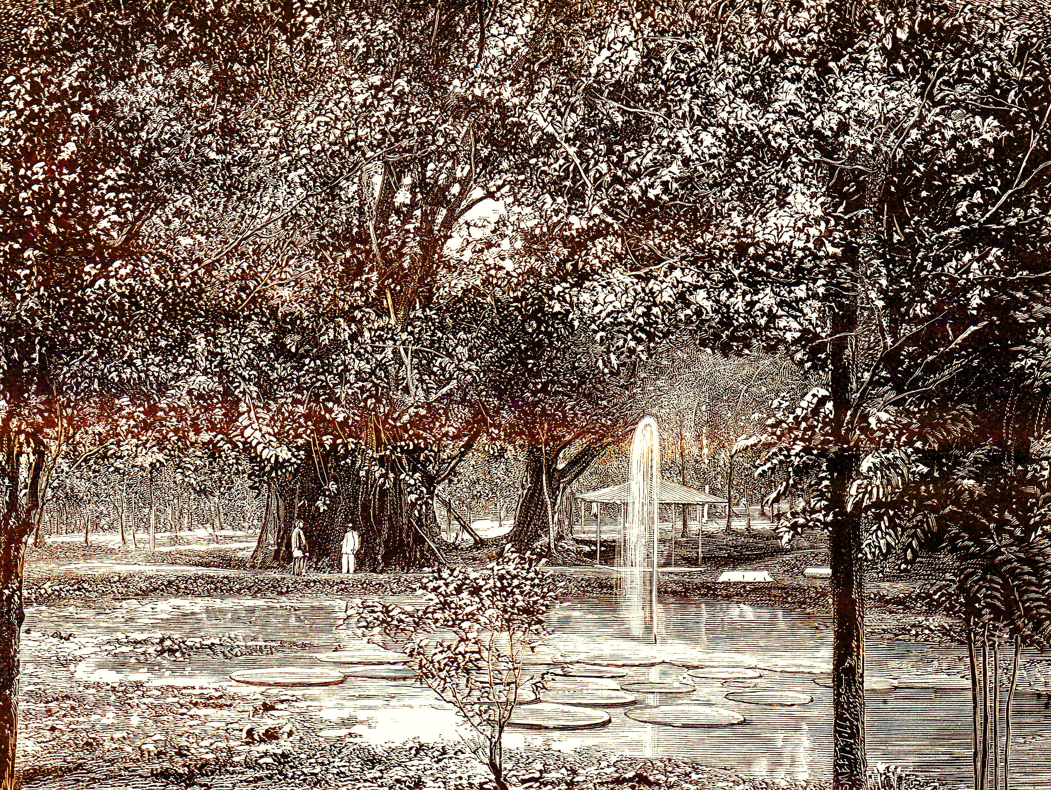 Botanical garden, Buitenzorg